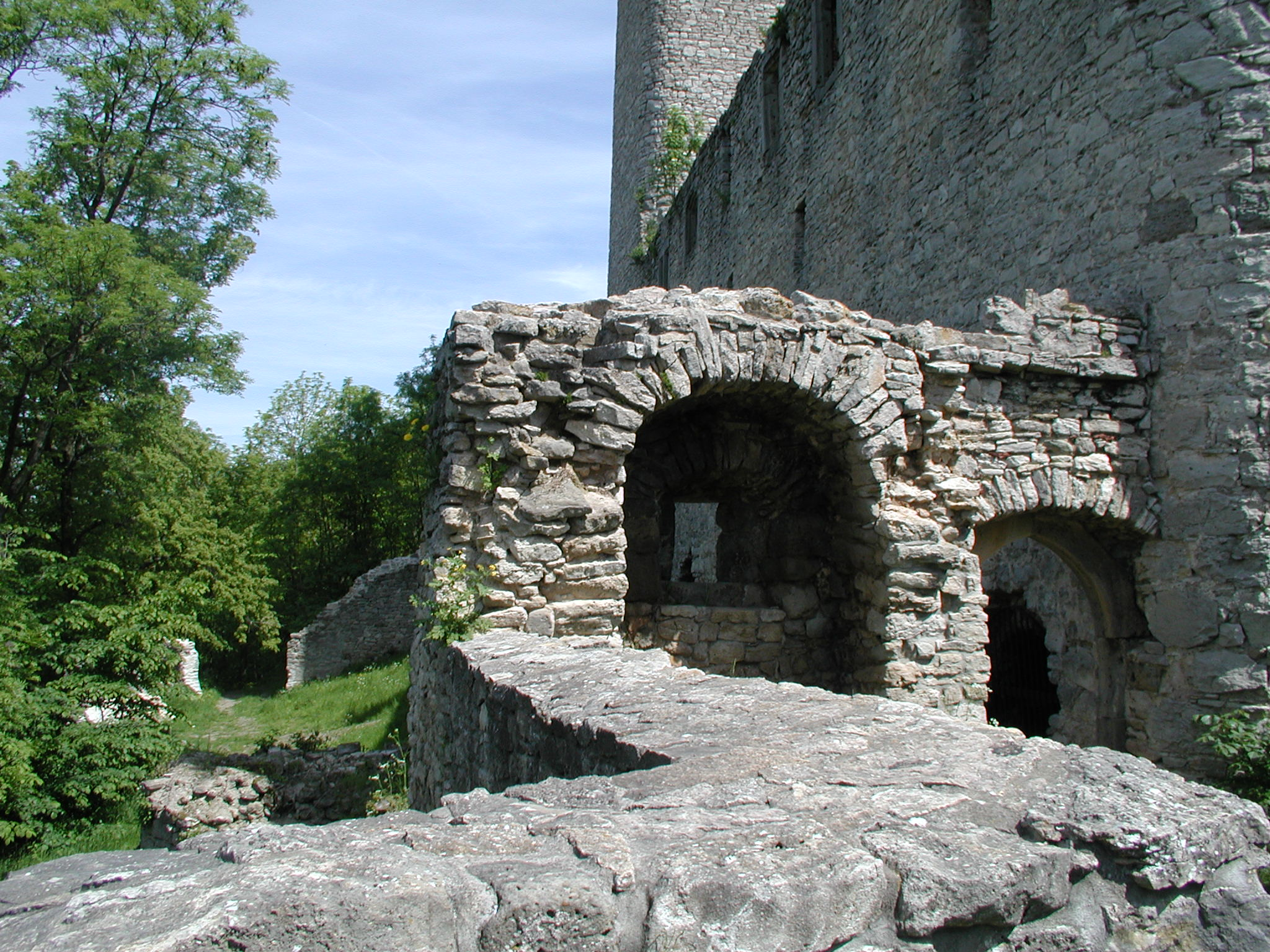 Burgruine Ehrenstein (Ehrenstein Castle) in Thuringia, Germany.